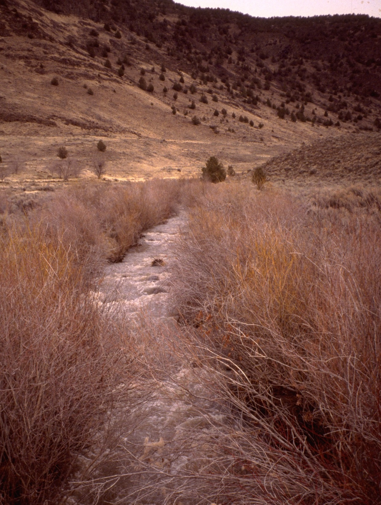 Early spring/late winter in Home Creek riparian area; Home Creek Canyon drainage, flowing from Steens Mountain into Catlow Valley, Harney County, Oregon.